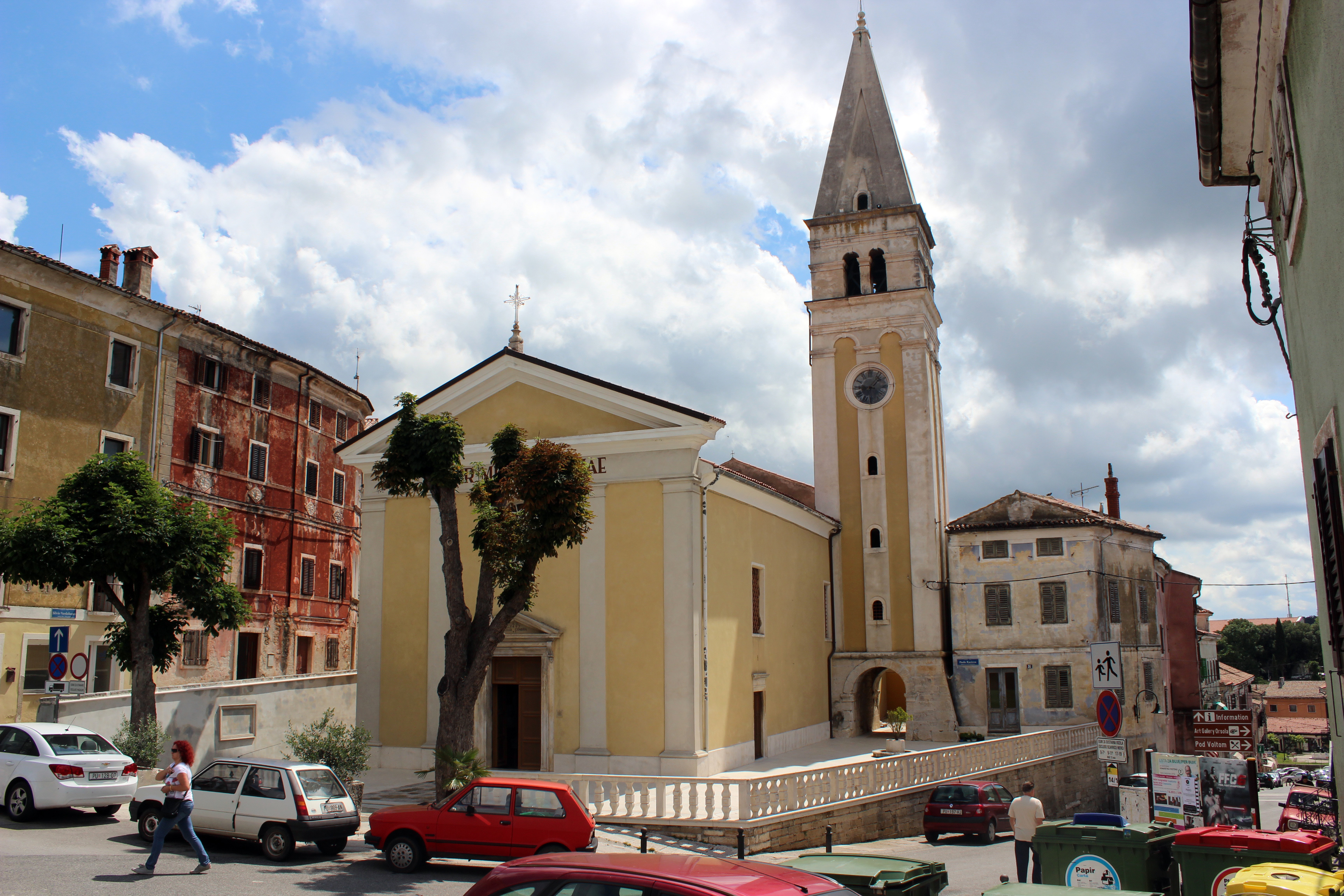 Sanctuary Church Mother of Mercy (Crkva Proštenišna Majike Milosrđa), in Buje, Croatia